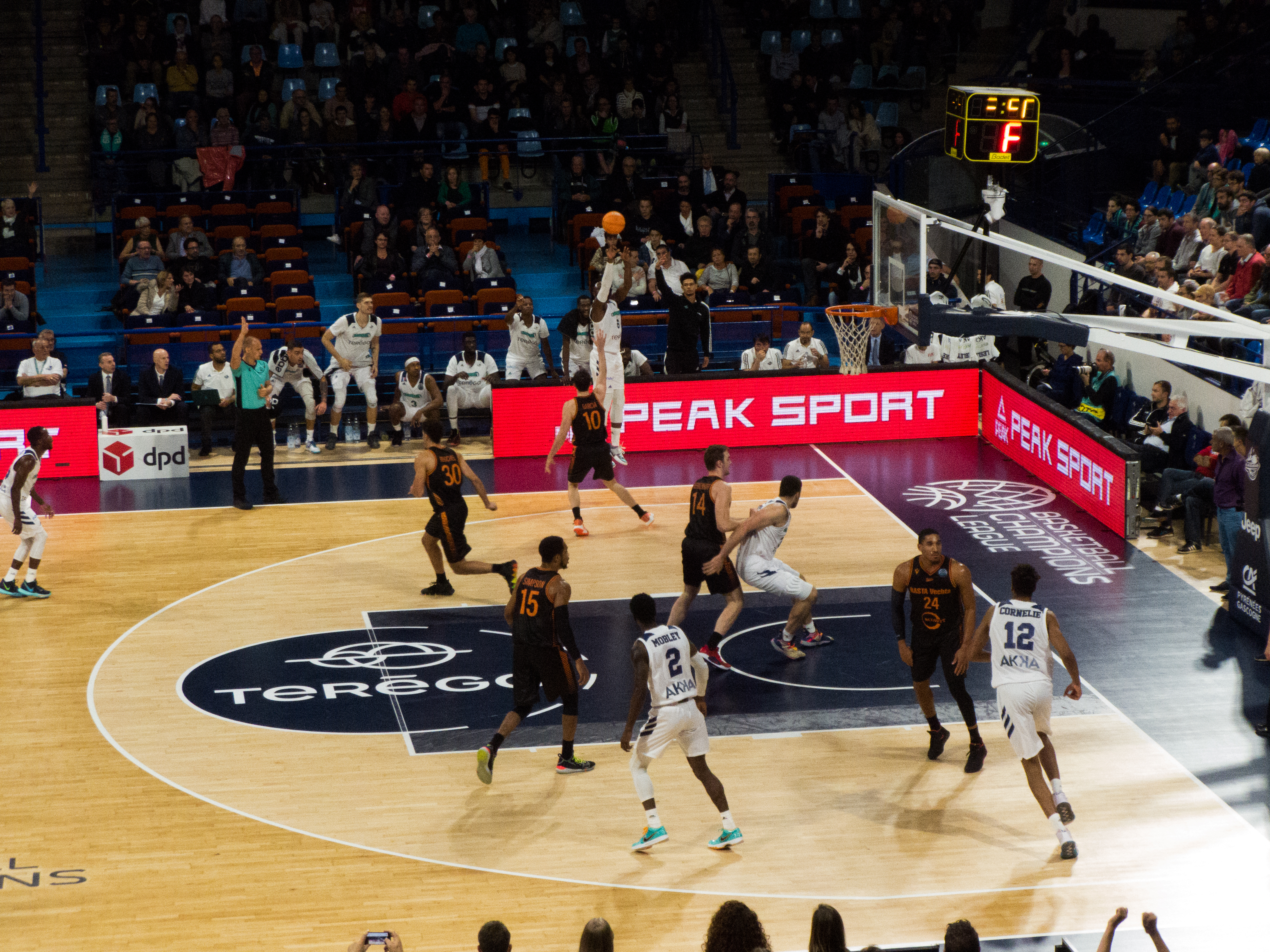 2019–20 Basketball Champions League — 22 October 2019, Palais des Sports de Pau. Match between: Élan Béarnais Pau-Lacq-Orthez — SC Rasta Vechta